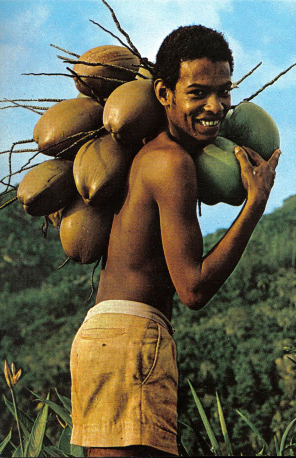 A boy with a bunch of green coconuts, Seychelles.